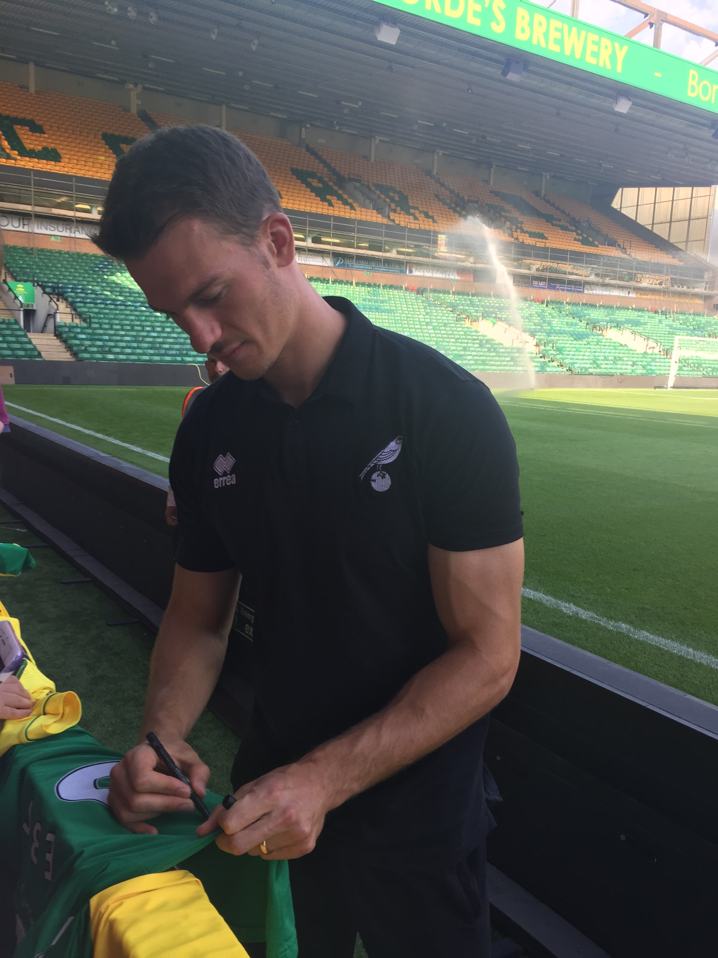 Zimmermann after a training session, 2019